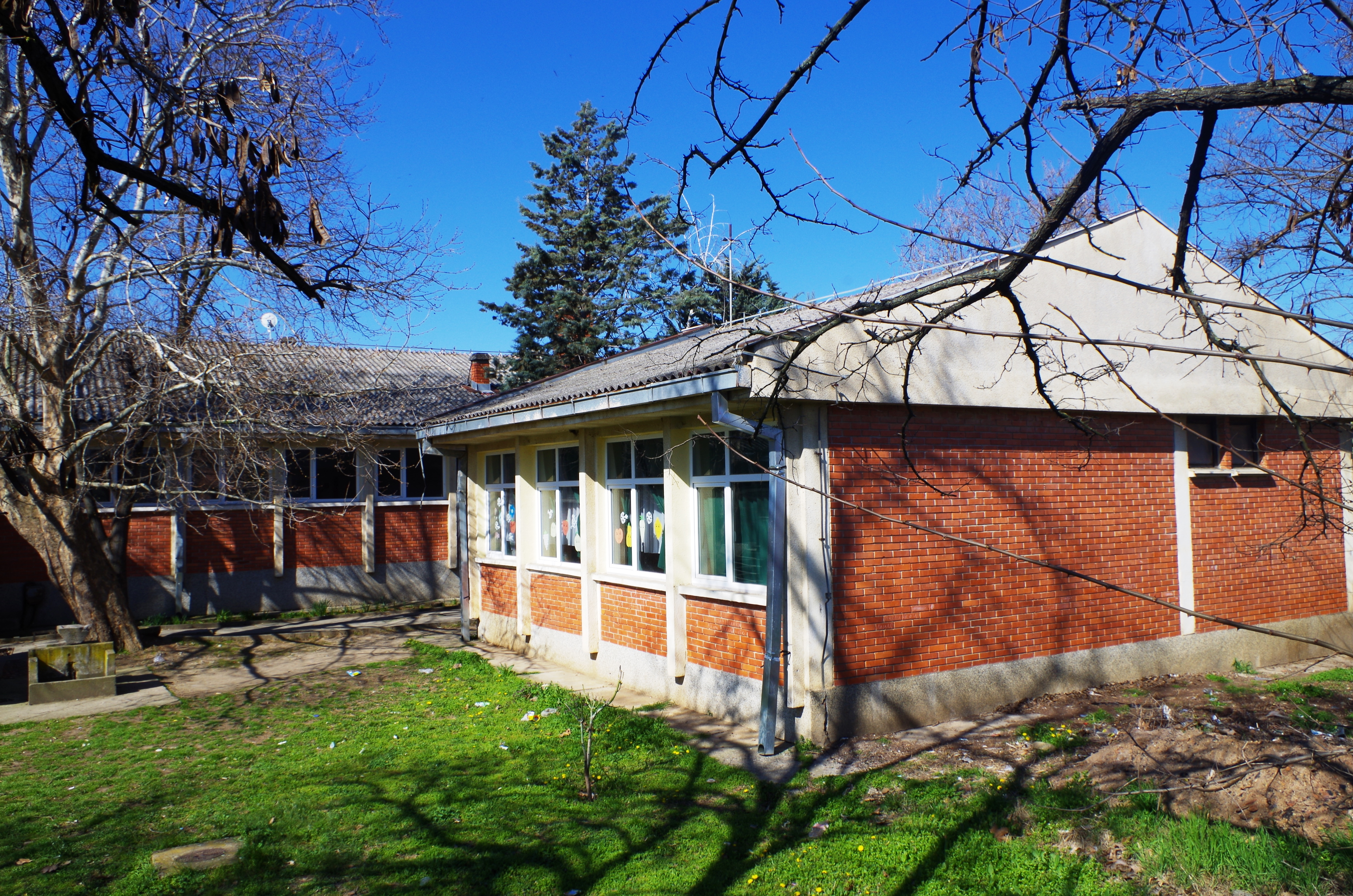 Primary school in Pepelište, Negotino Municipality